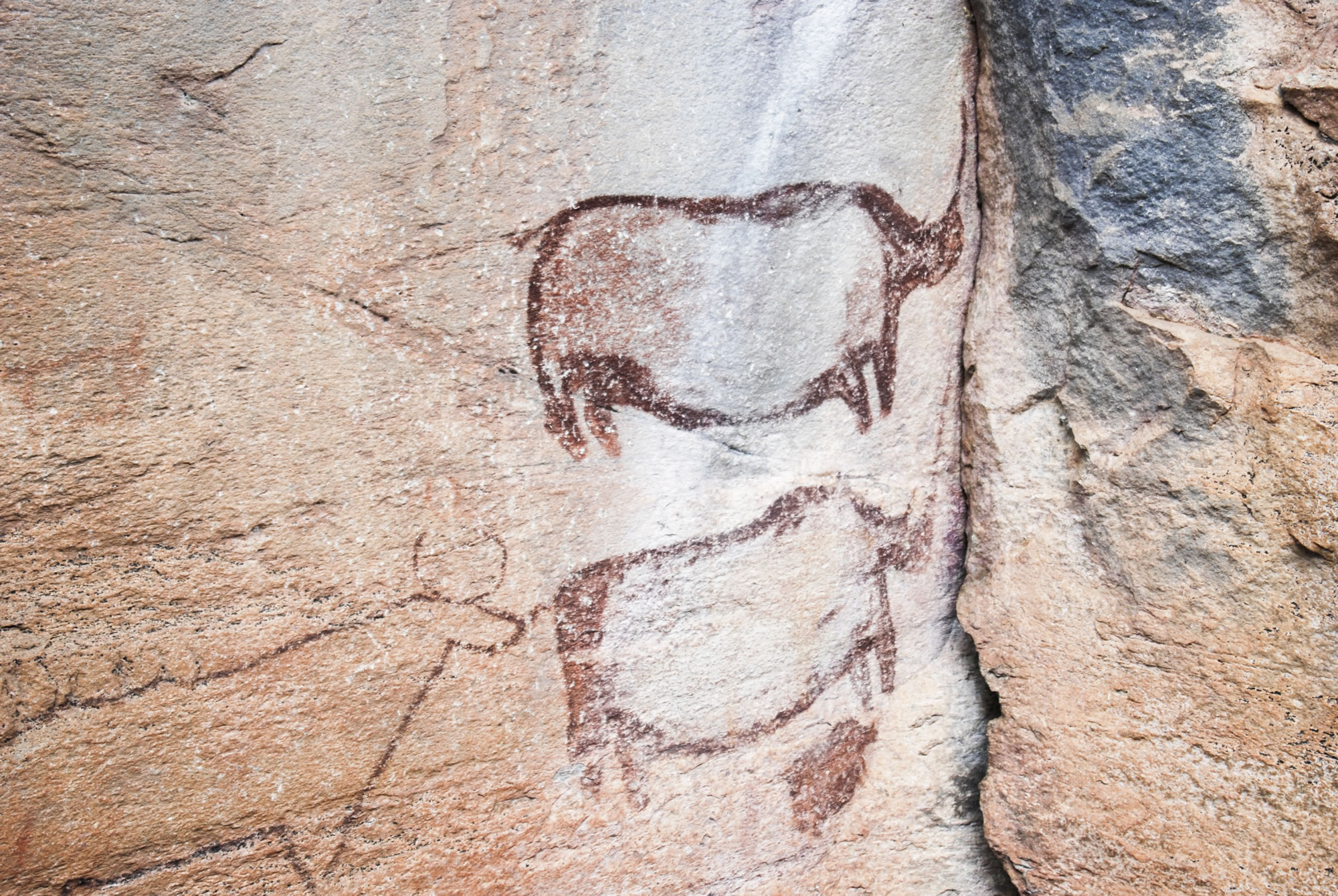 The 'Two Rhino' painting at Tsodilo.